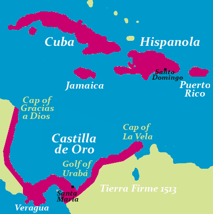 The Indies of the Crown of Castile, 1513